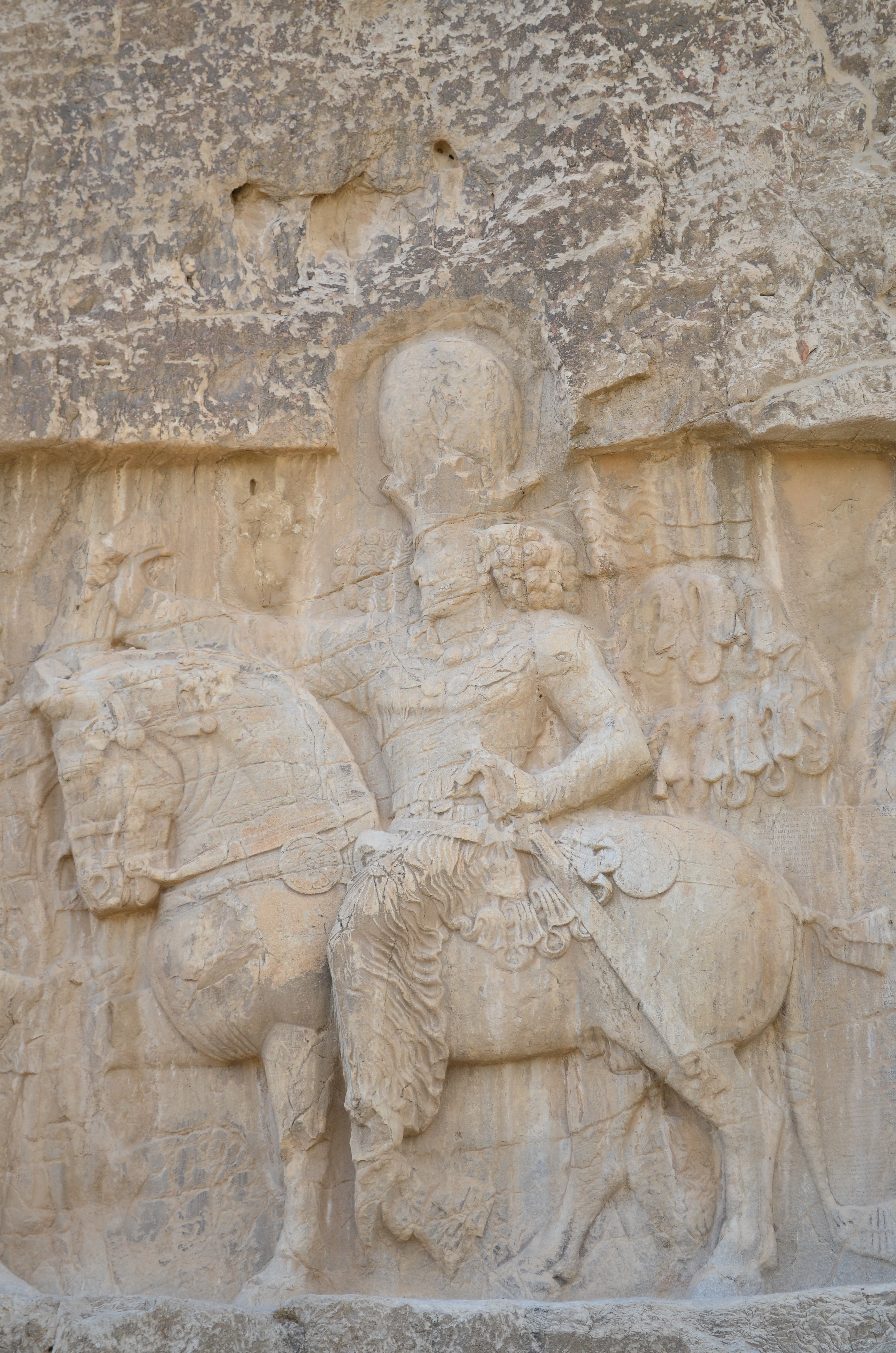 A bas relief sculpture at Naqsh-e Rustam, Iran, depicting the triumph of Shapur I over the Roman Emperor Valerian.